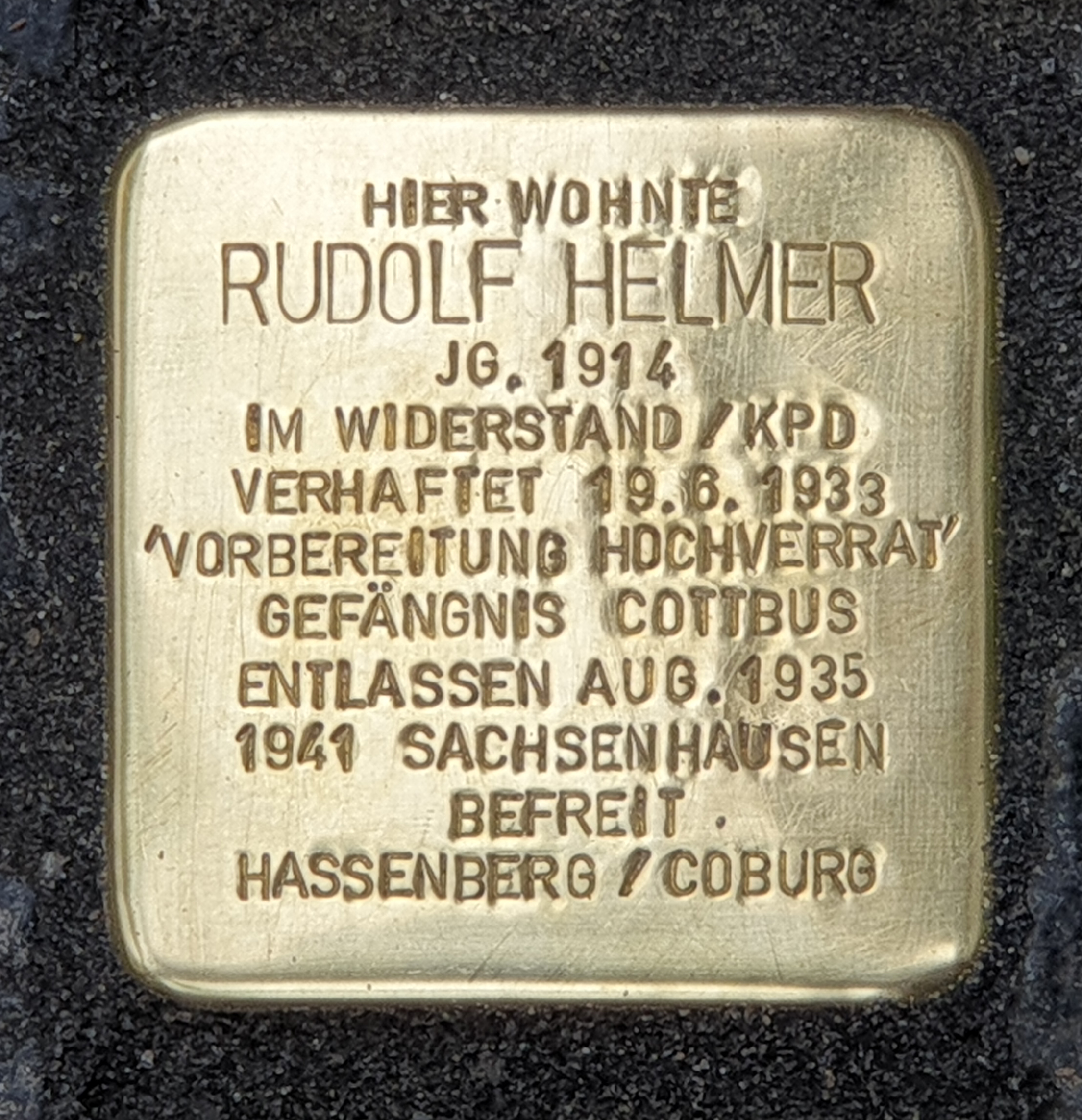 "Stolperstein" (stumbling block), Rudolf Helmer, Böckhstraße 5, Berlin-Kreuzberg, Germany